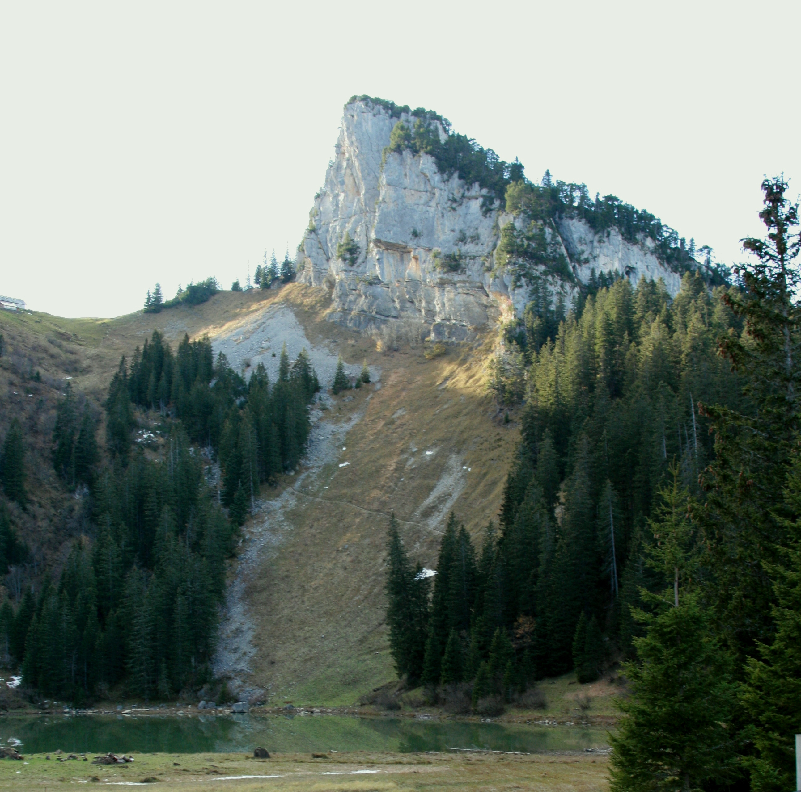 Alplersee (view from east towards west) with the Holzerstock in background